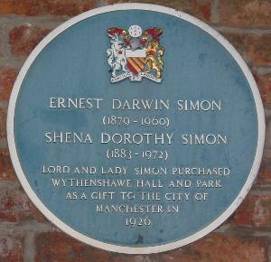 Photo ot the plaque commemorating the gift of Wythenshawe Hall and the surrounding 250 acres of land to the City of Manchester